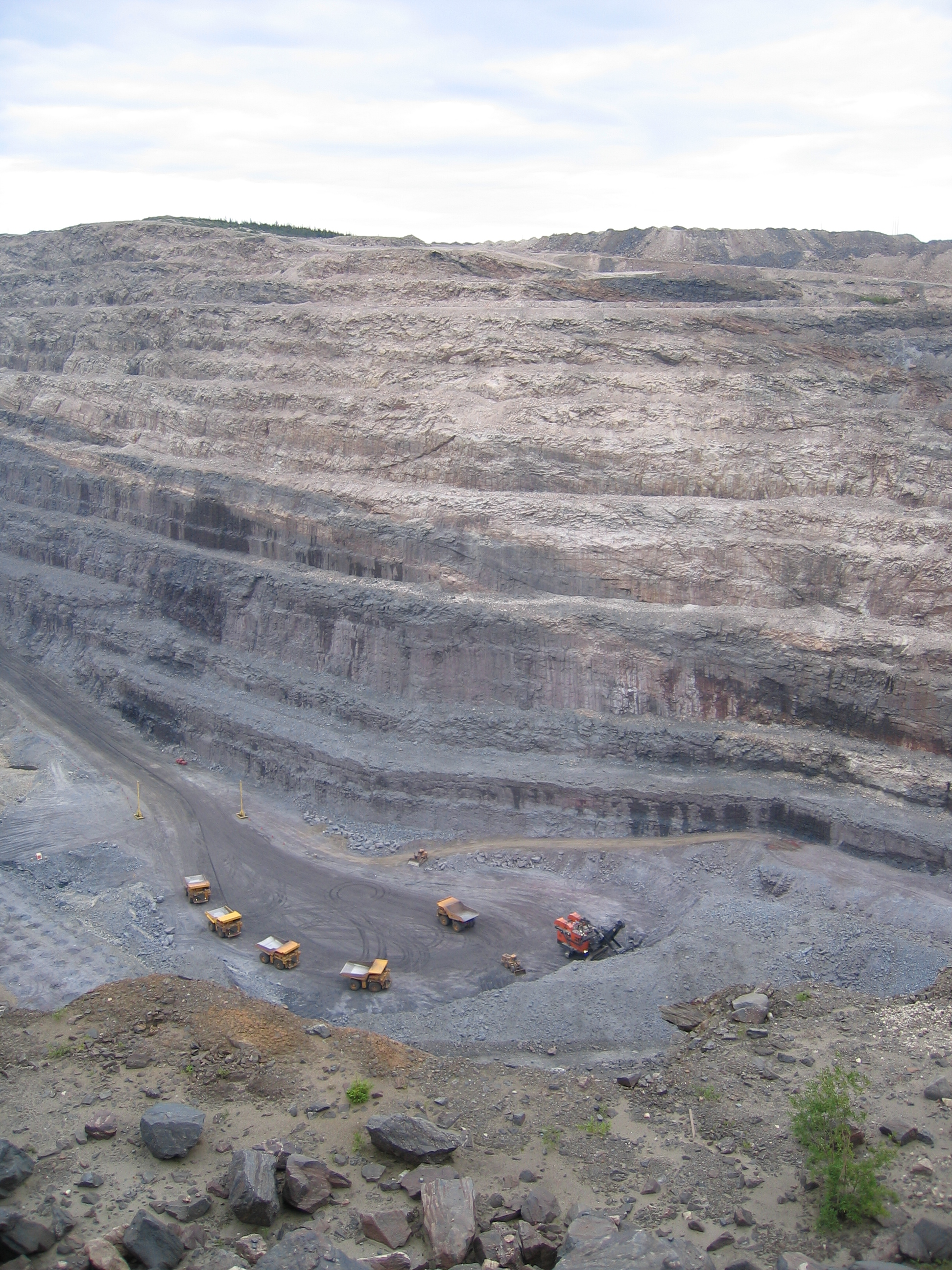 Iron ore mine in Labrador, Canada July 2006